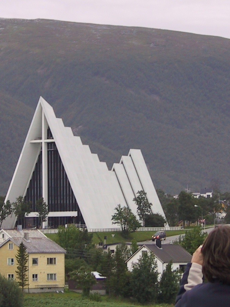 The Arctic Cathedral